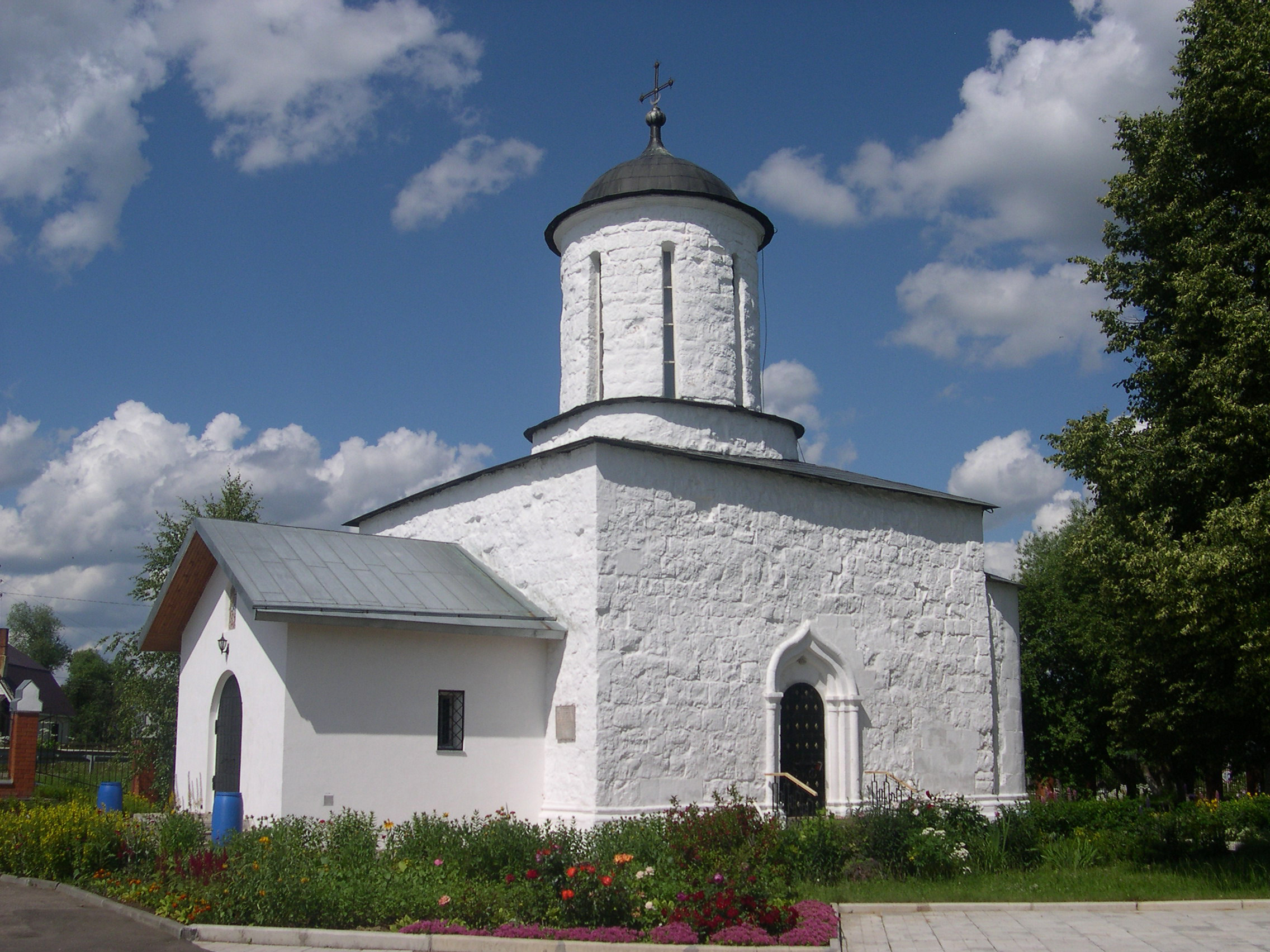 Saint Nicholas church in Kamenskoe (Moscow oblast), probably XIV century